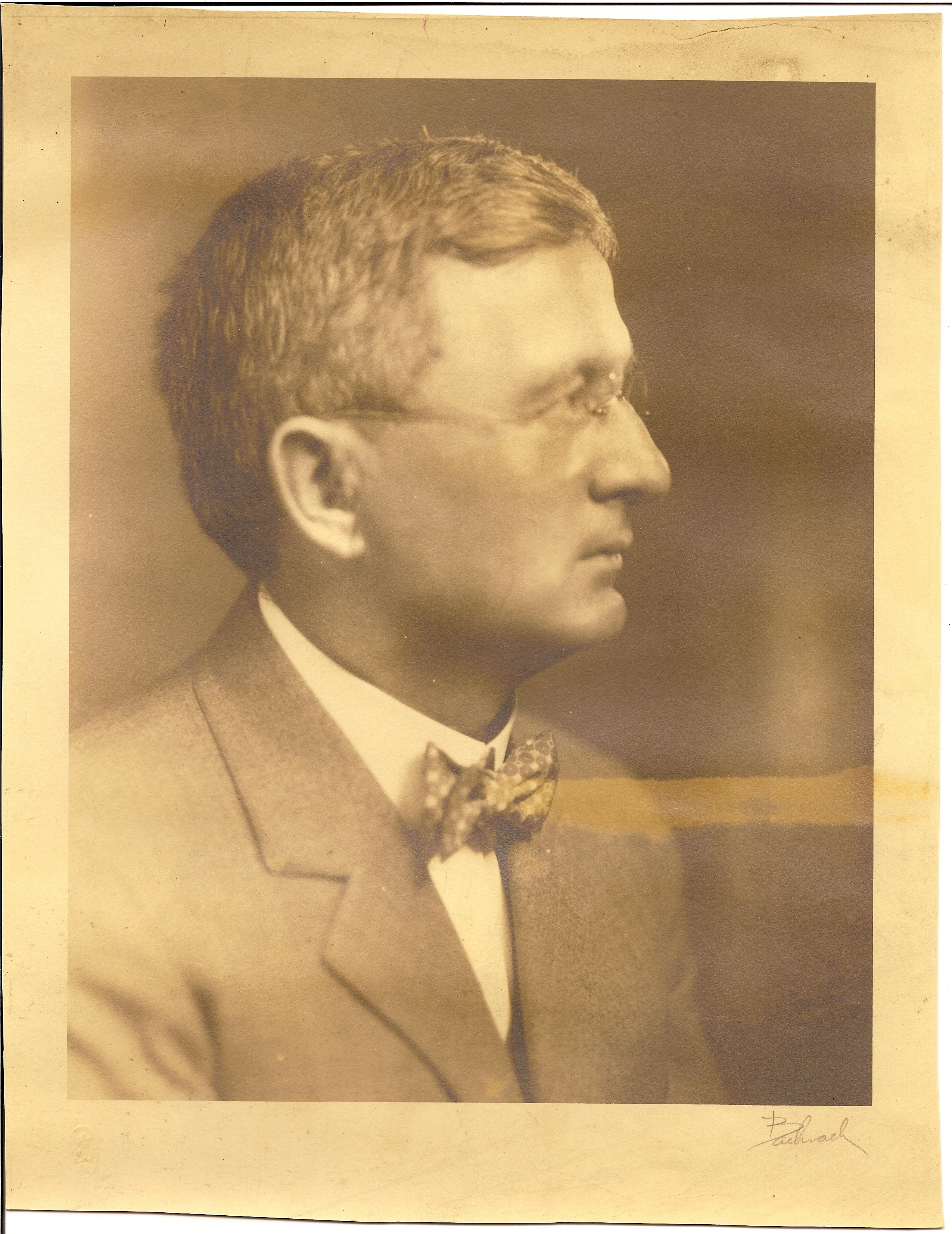 Dr. G.R.R. Hertzberg, late founder of the Stamford Museum & Nature Center